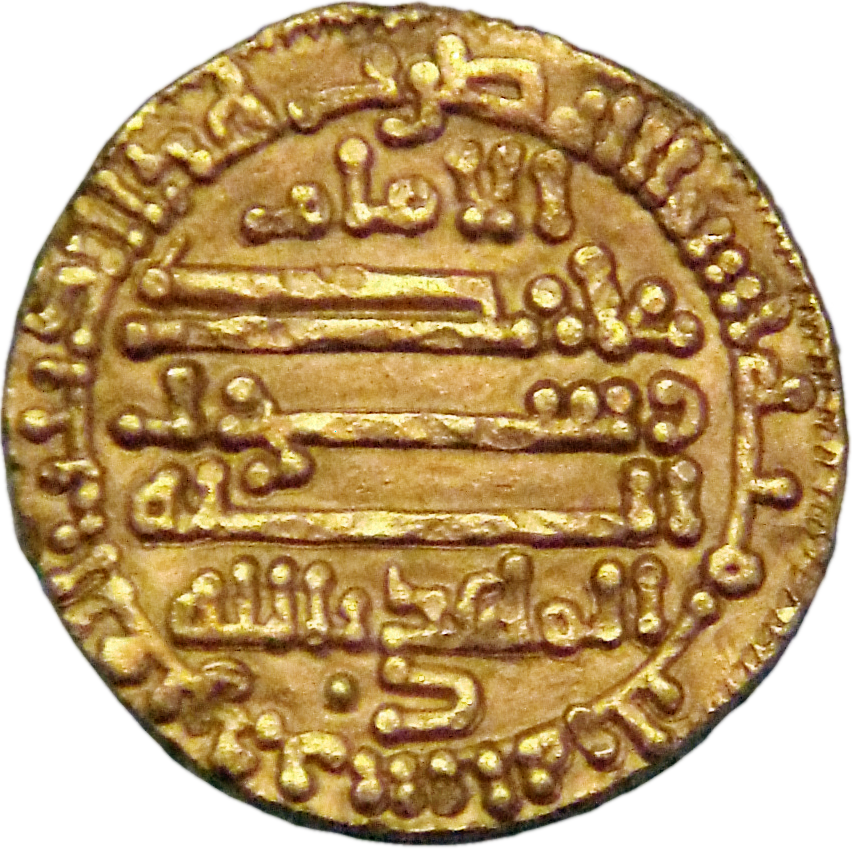 Calif_al_Mahdi_Kairouan_912_CE